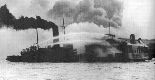 The Halifax fireboat Rouille Original caption: “Fireboat Rouille in action, Halifax Harbour Ferry Governor Cornwallis on Fire December 23, 1944.”